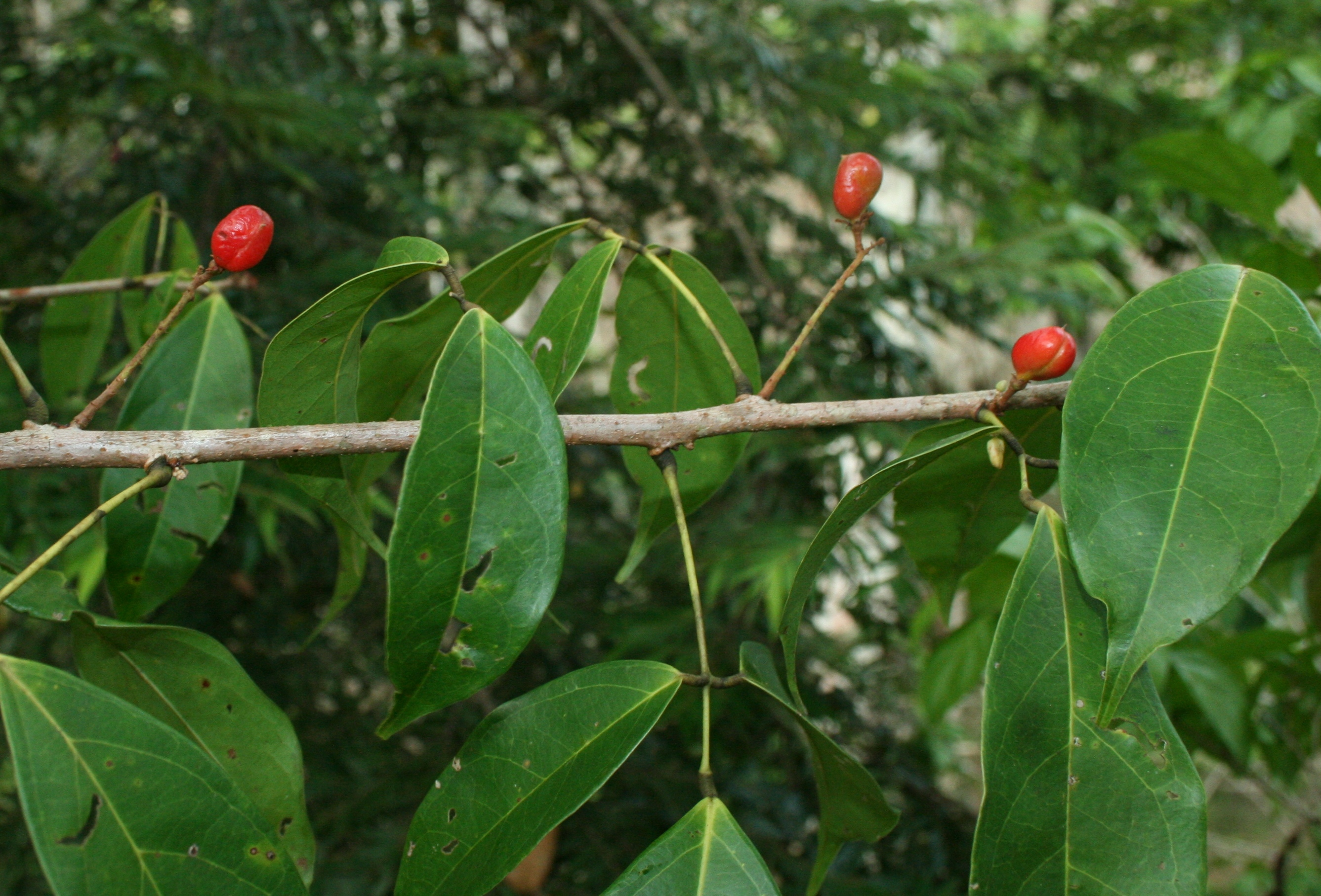 Fruiting branch of Connarus lambertii, Rio Caura, Venezuela